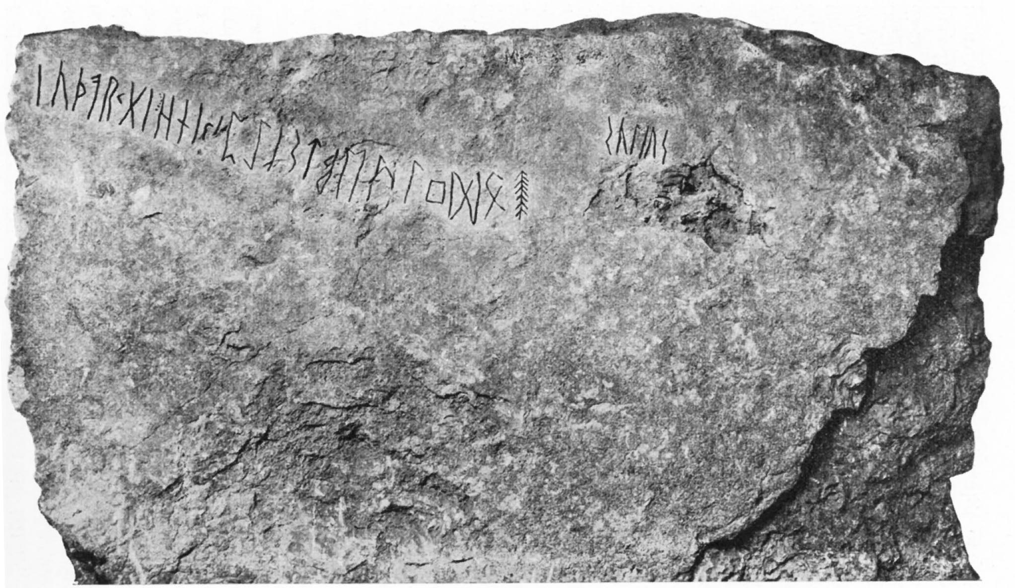 The Kylver runestone from Gotland, Sweden.